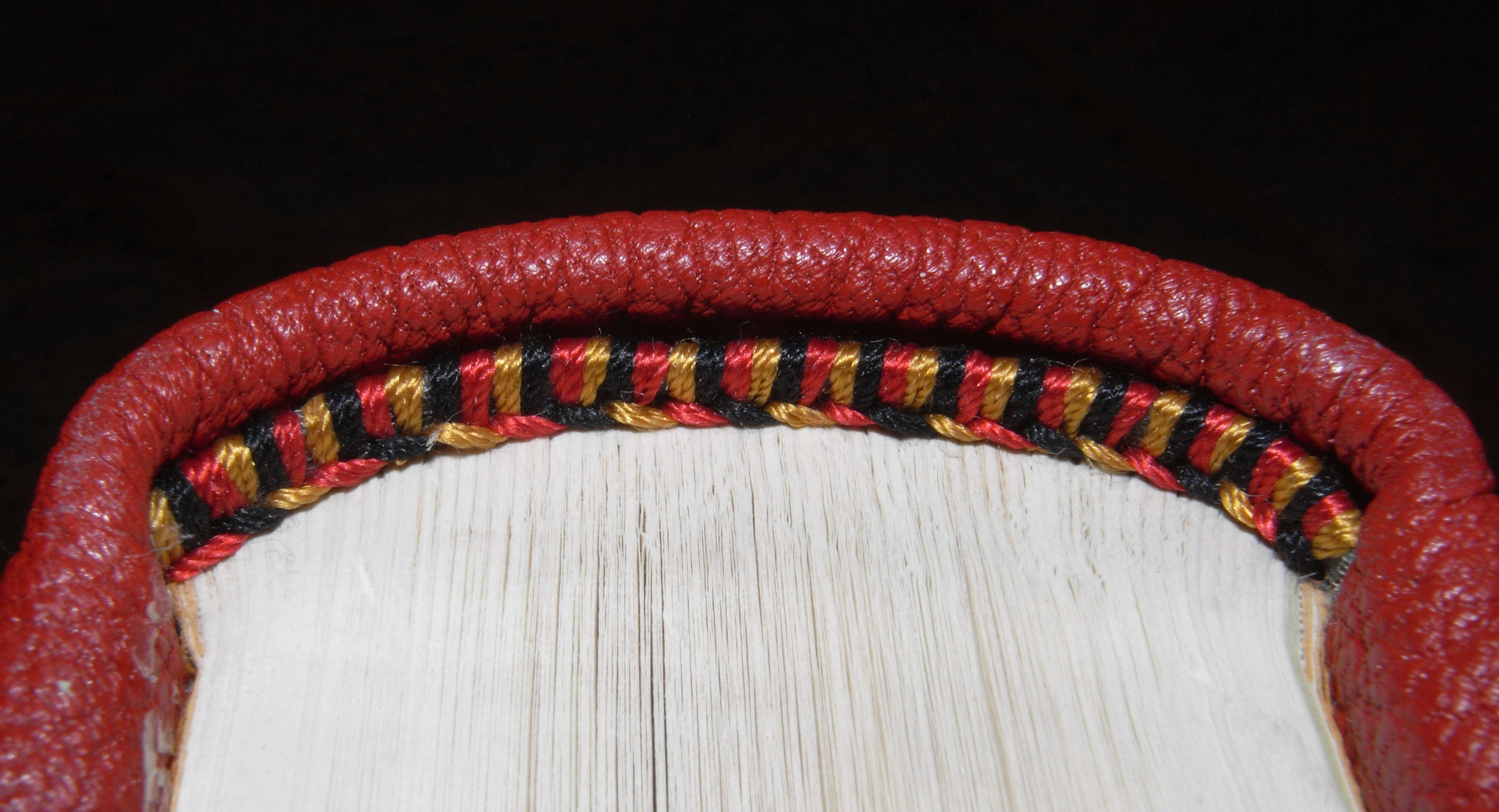 tailband on book, handmaded (20th century)